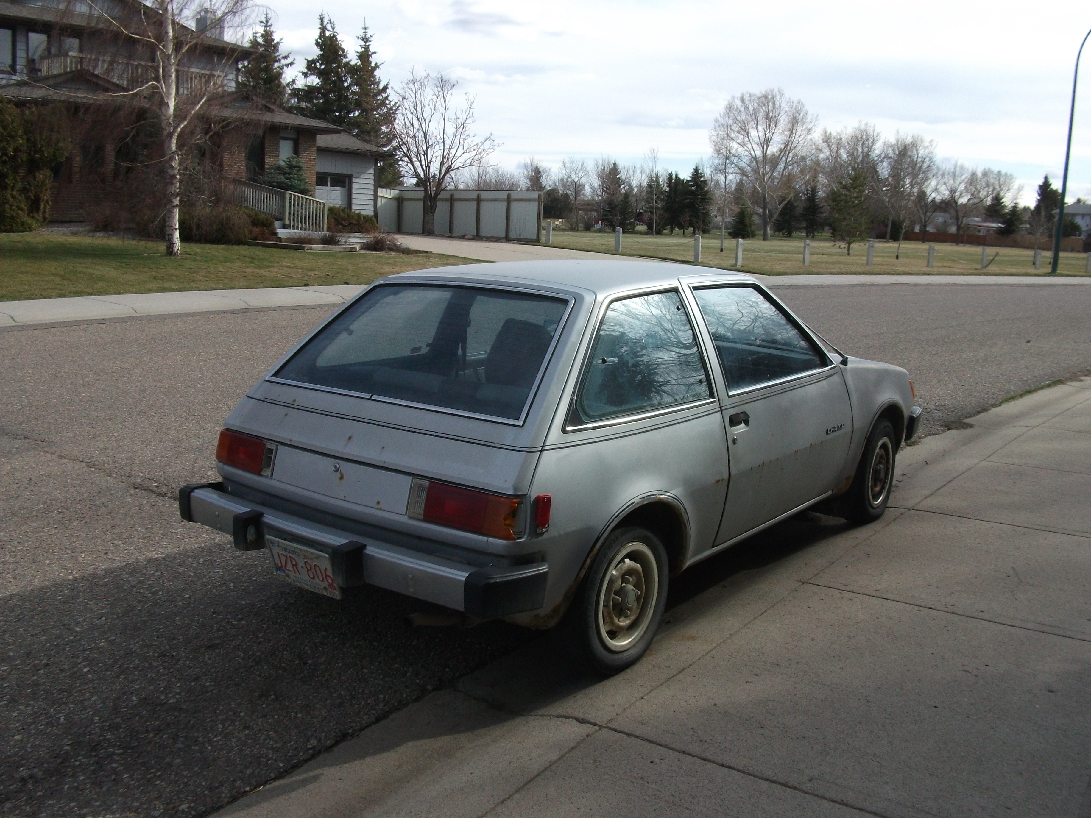 Plymouth Champ was a sibling to the Dodge Colt from 1979 to 1982. Both of course where badge engineered from the Mitsubishi Mirage/Colt.